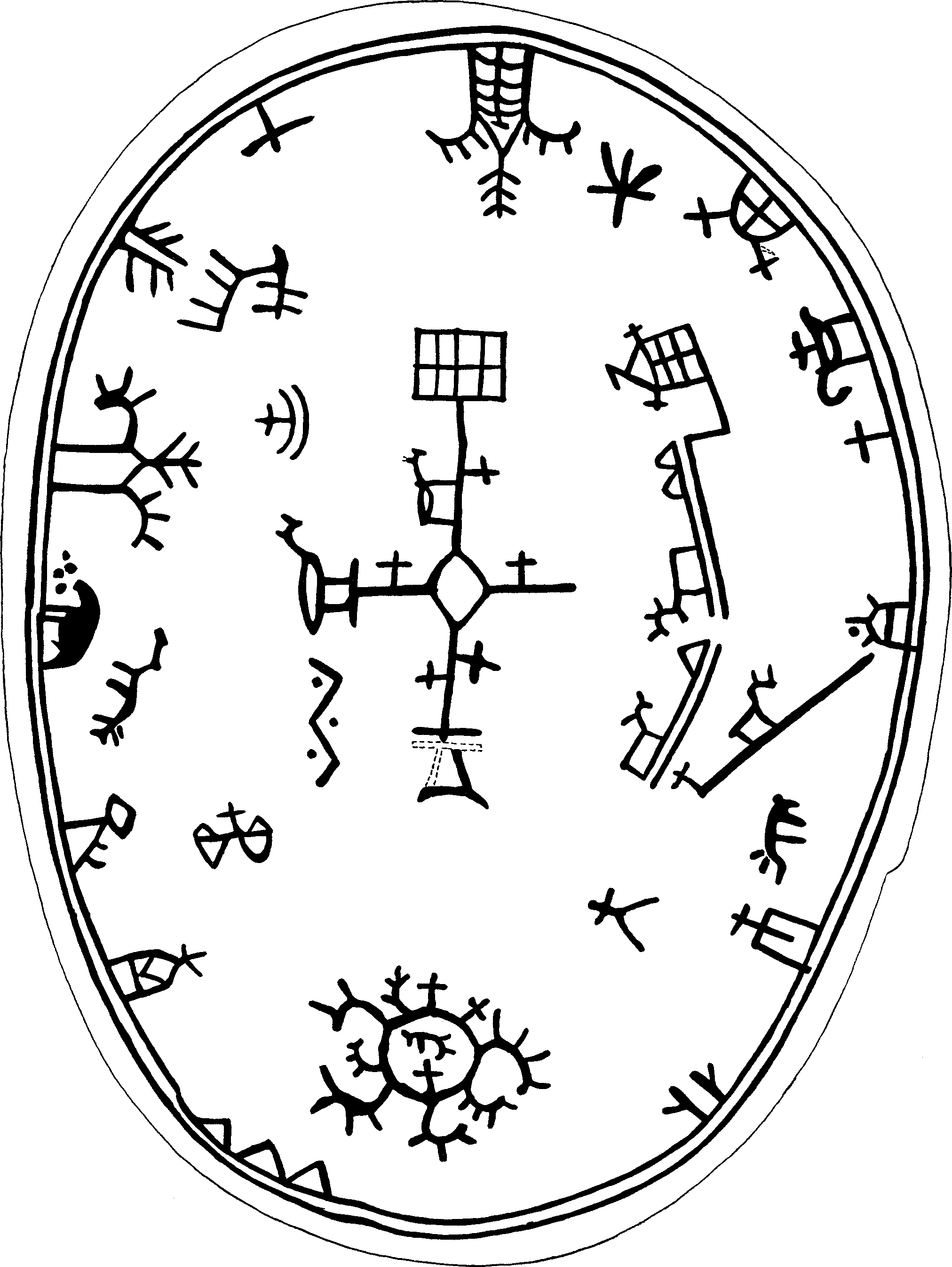 Sami drum, probably from Åsele Lappmark. Frame drum. Height 46; width 34 cm. No 35 in Ernst Manker's Die lappische Zaubertrommel (1938/1950). Confiscated by the bishop of Härnosand Petrus Asp during his visitation in Åsele new years day, january 1725. A total of 26 drums were confiscated that day and given to the Antiquitätsarchiv in Stockholm. According to manker and Åsa Virdi Kroik (2007) originally owned by Mårten Olofson of Åsele. Now owned by SHM (SHM 360:7); kept at Nordiska Museet, Stockholm